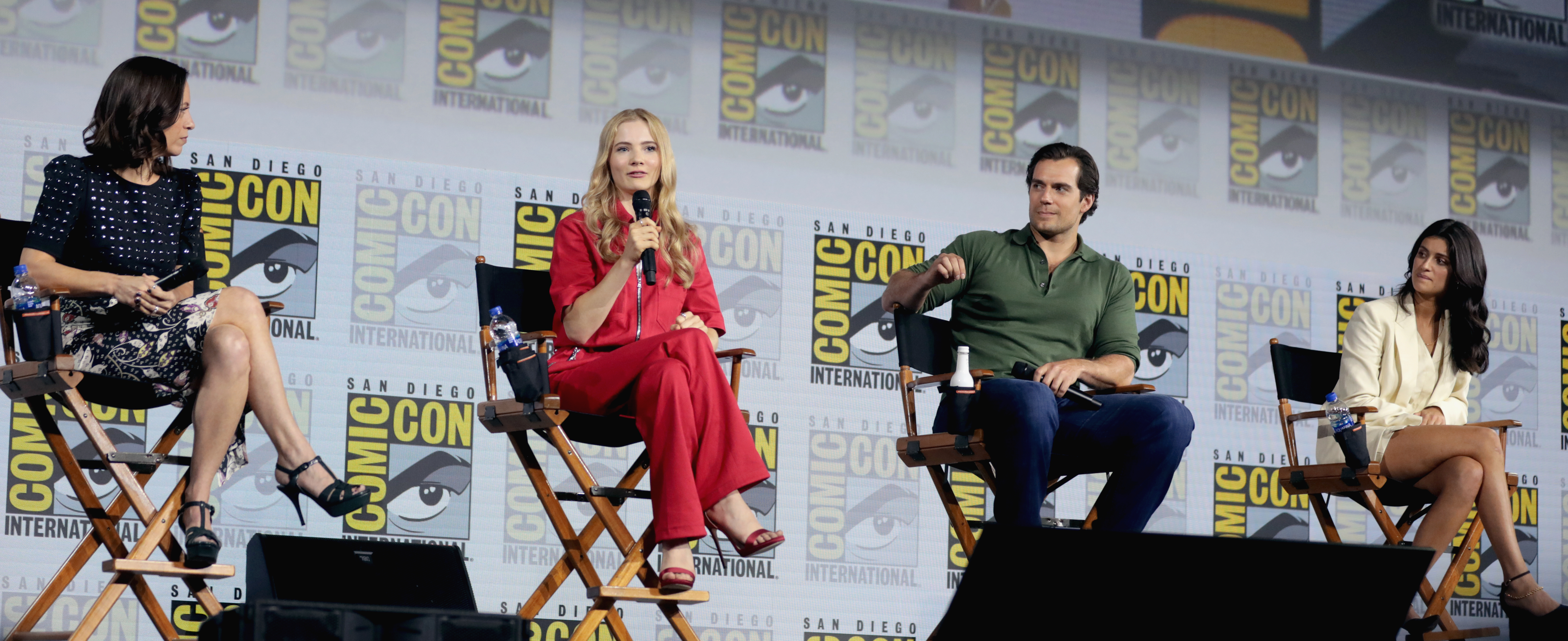 Lauren Schmidt Hissrich, Freya Allan, Henry Cavill and Anya Chalotra speaking at the 2019 San Diego Comic Con International, for "The Witcher", at the San Diego Convention Center in San Diego, California.